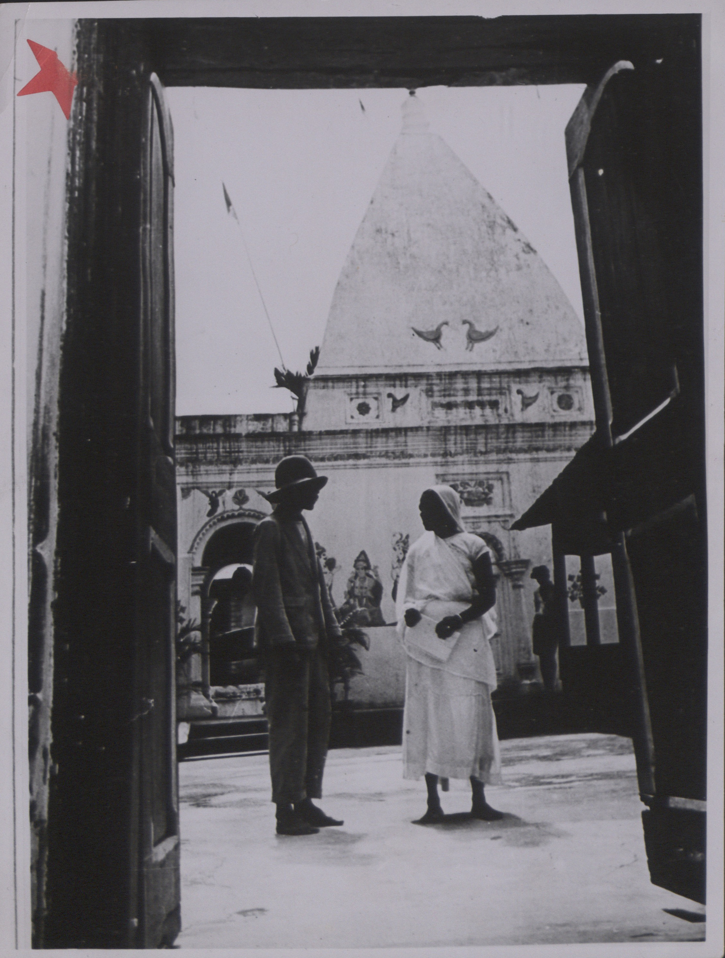 Hindu temple near Port-of-Spain, Trinidad, 1945.